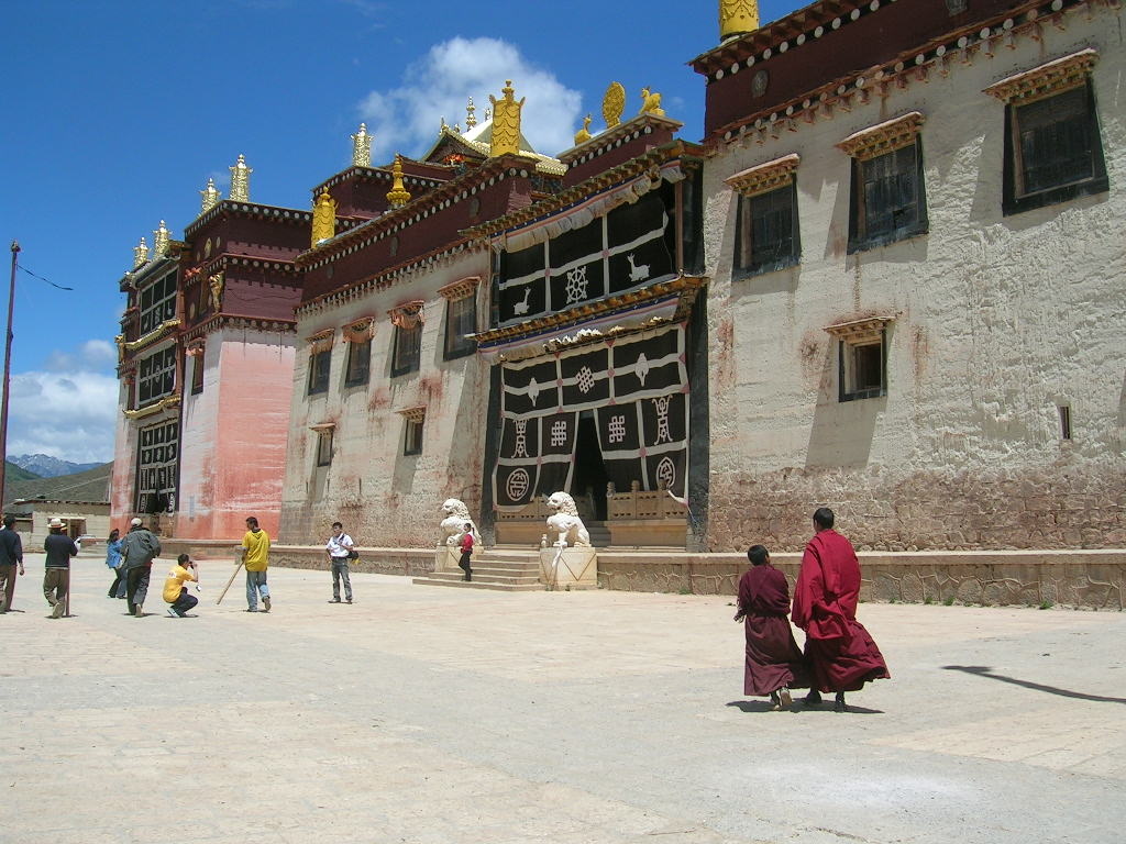 Songzanlin monastery, north of Zhongdian (Shangri-La), Dêqên Tibetan Autonomous Prefecture, Yunnan, China